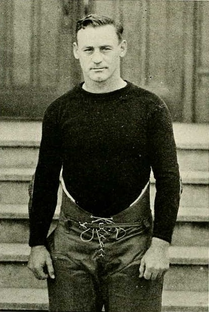 Photograph of Leslie Mann, Indiana University basketball coach